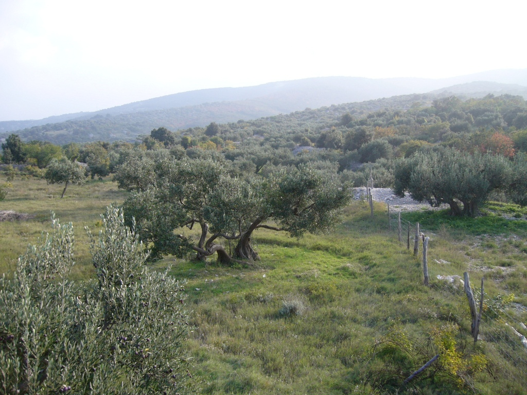 Olive orchards and Mediterranean woodlands — in Croatia.